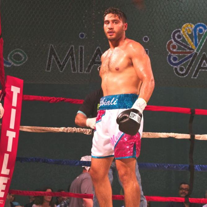 boxing